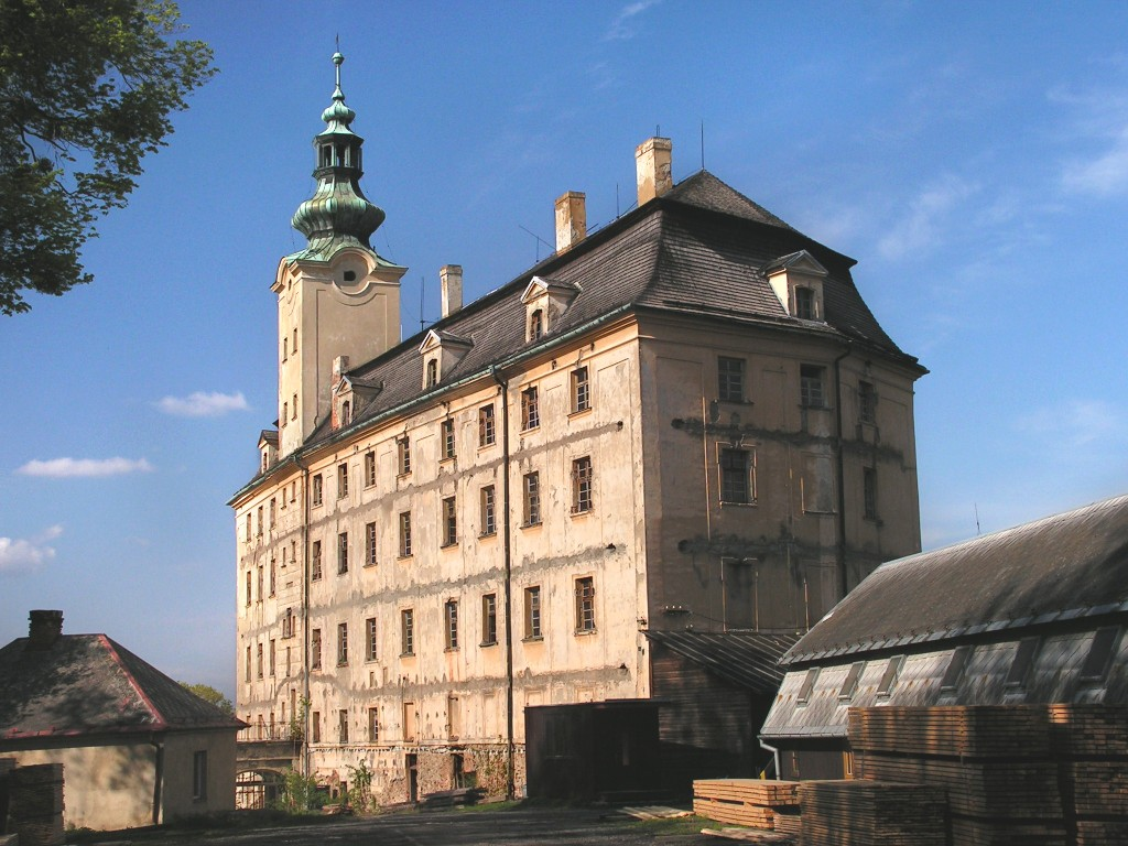 Renaissance castle in Fulnek, Czechia.